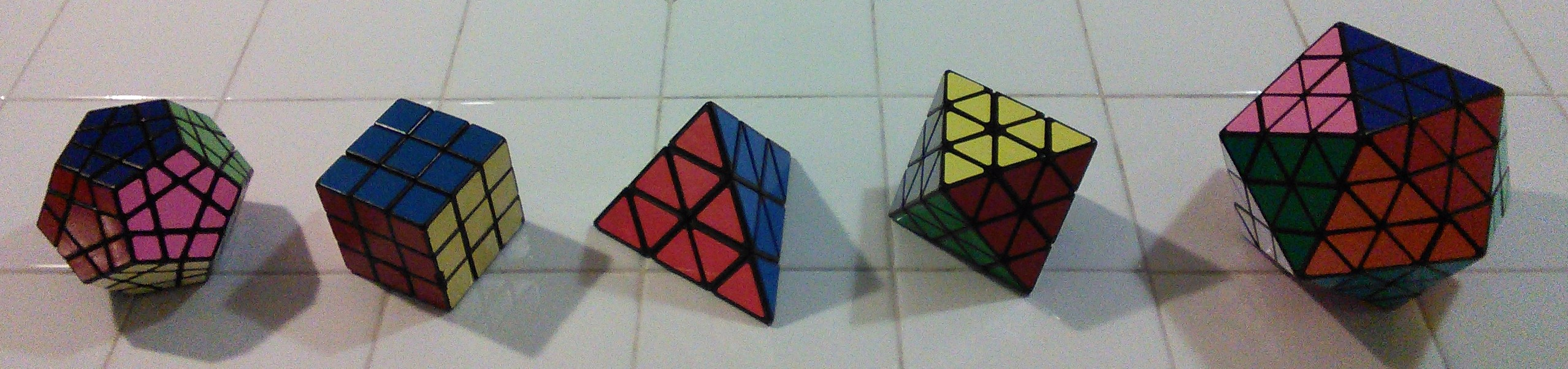 All five platonic solid versions of Rubik's cube